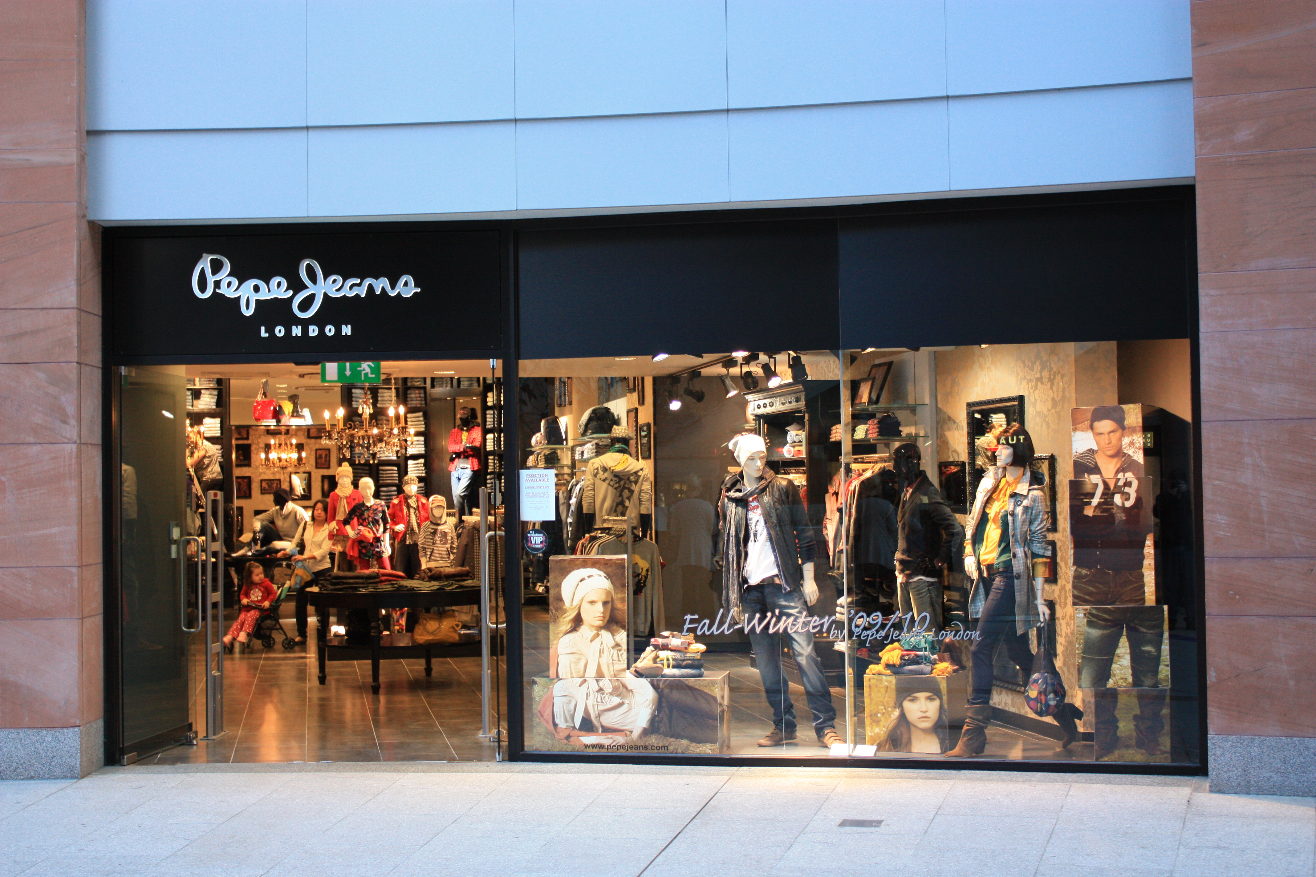 Pepe Jeans, Victoria Square, Belfast, Northern Ireland, October 2009